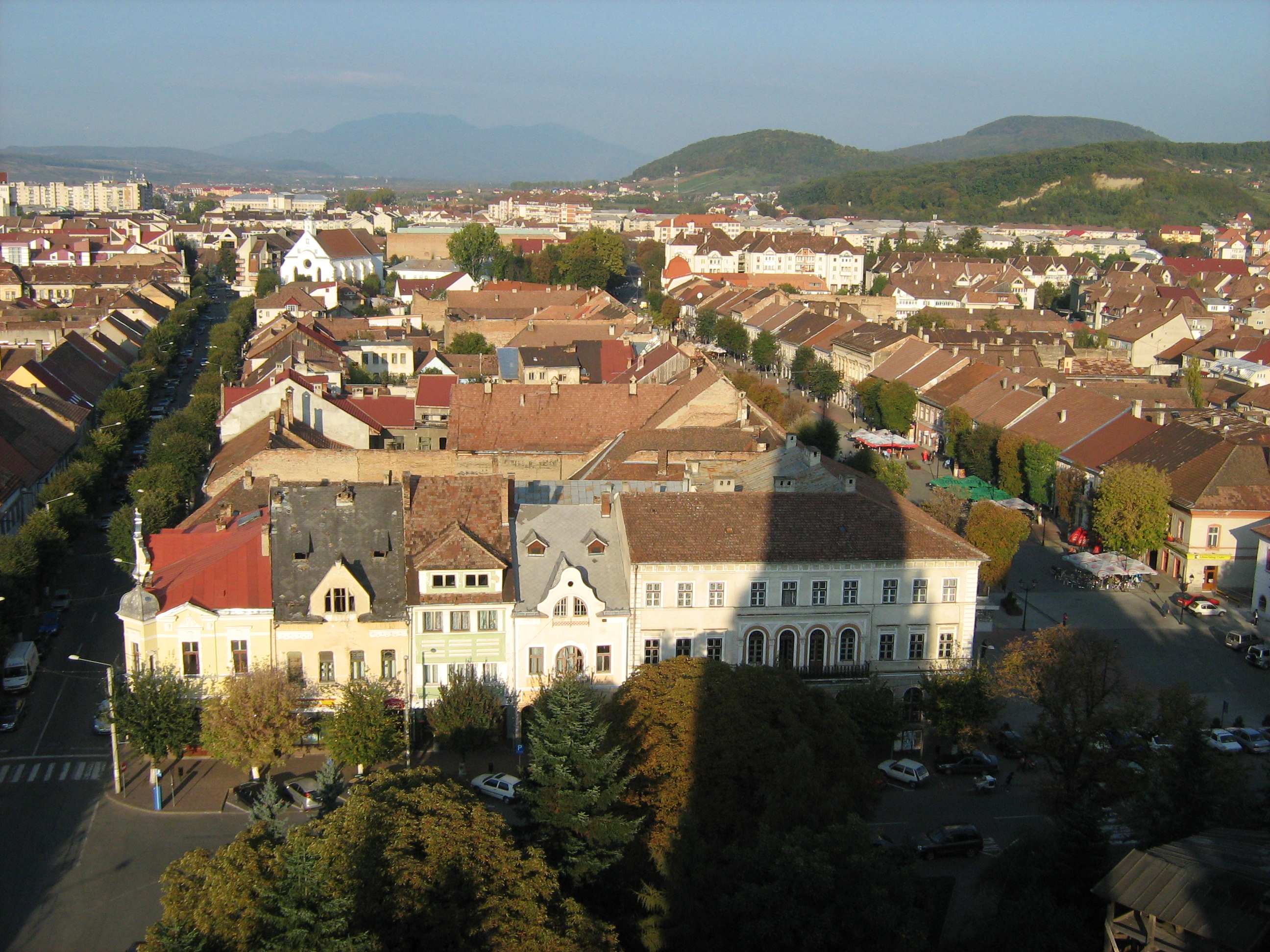 City of Bistriţa, RomaniaRomână: Bistriţa, România